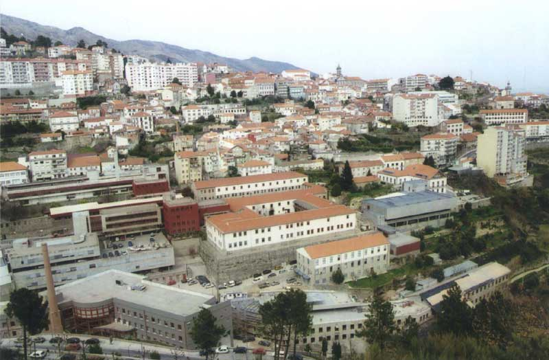 View of Covilhã